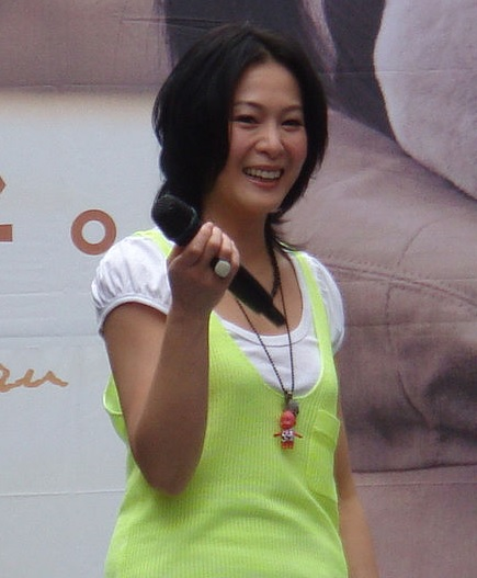 Rene Liu 中文（台灣）: 劉若英Bân-lâm-gú: Lâu Jio̍k-ing. 劉若英